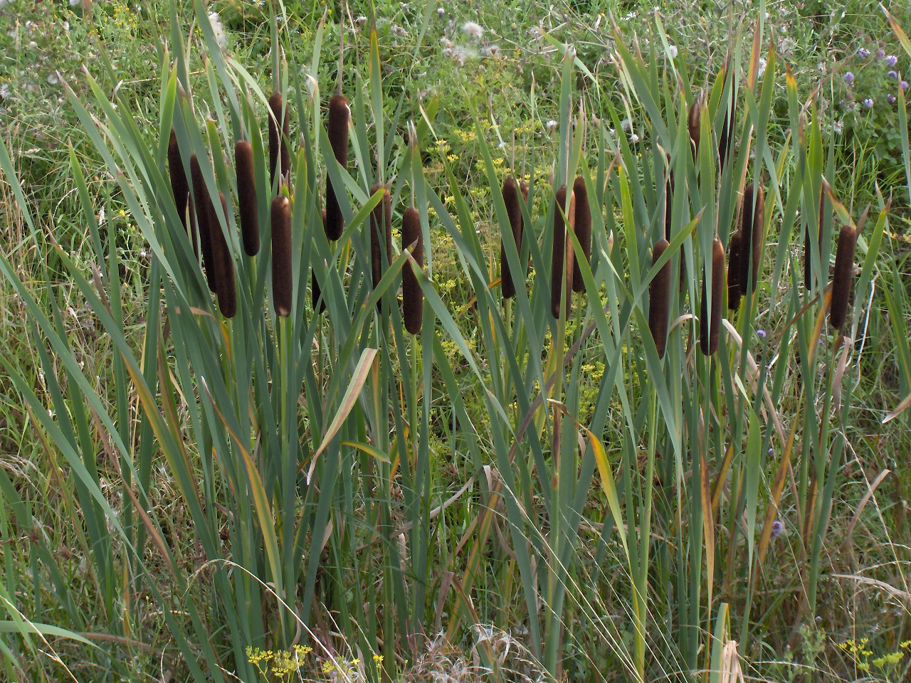 Species Typha latifolia Family Typhaceae